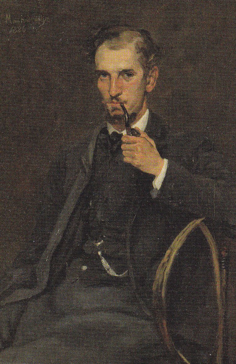 Portrait painting of Dutch writer J.H. Leopold (1865-1925) by painter Martin van Andringa (1864-1918). Signed upper left corner. Location 2016: Nederlands Letterkundig Museum, The Hague.